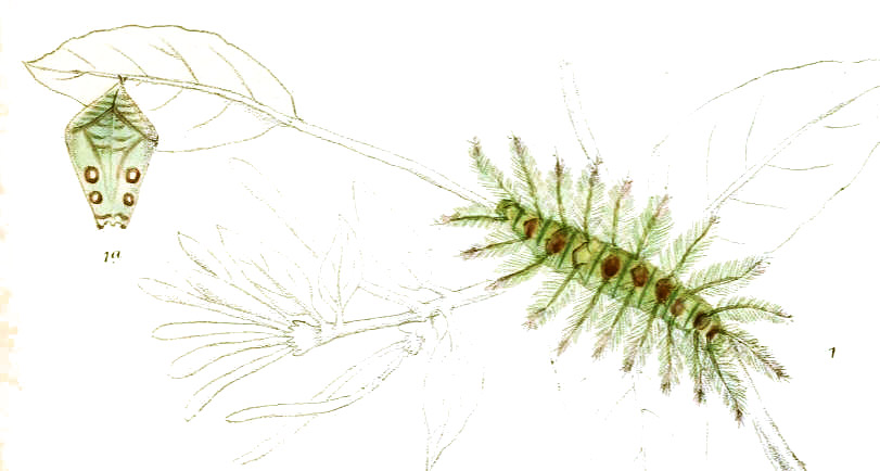 Euthalia lubentina